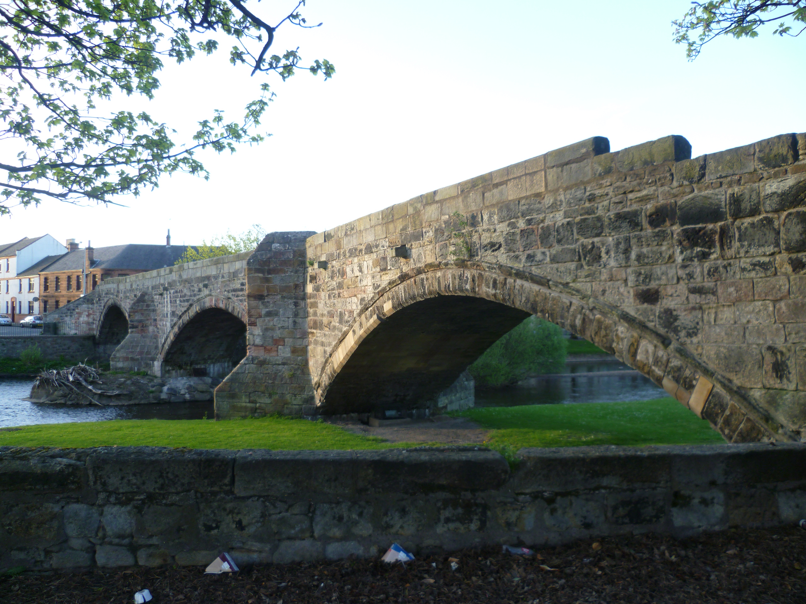 The Auld Brig dates from the 16th century, but is known locally as the 'Roman Bridge', because the Romans are known to have bridged the Esk at this spot. Many an English and Scottish army has crossed the bridge in its time. After the Battle of Pinkie in 1547, the Scottish army came under fire on the bridge from English ships at the mouth of the Esk and in 1745 Bonnie Prince Charlie's Jacobites crossed it on their way to and from the Battle of Prestonpans. This is the view looking northwards towards the river mouth.